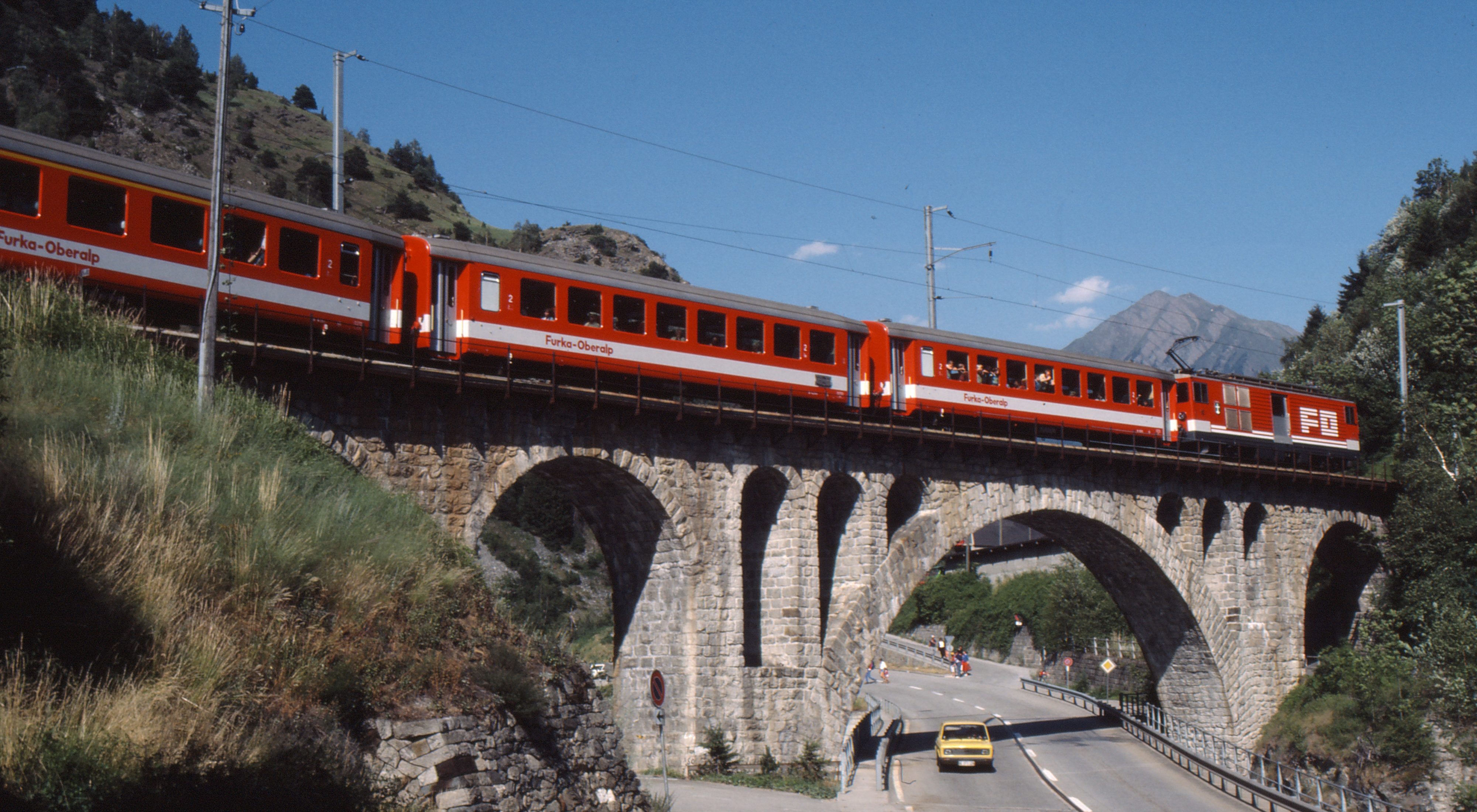 Train of the Furka-Oberalp Railway with Deh 4/4 II at Betten in Switzerland.